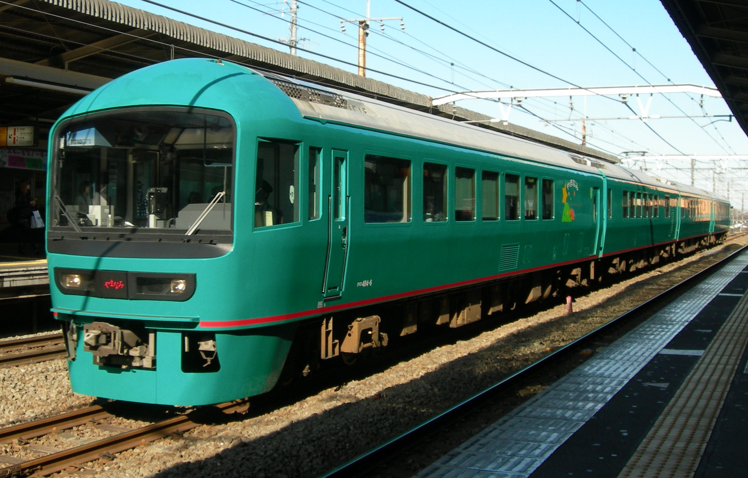 JR East 485 series "Yamanami" Joyful Train EMU at Nishi-Kokubunji Station